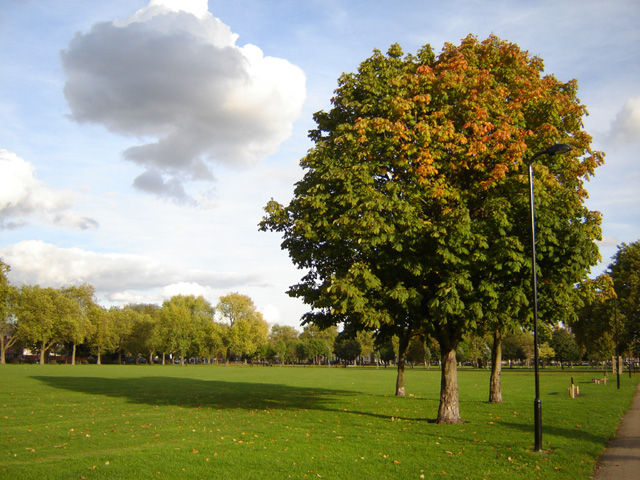 Hackney Downs, Lower Clapton, Hackney, London. 20 October 2005. Photographer: Fin Fahey